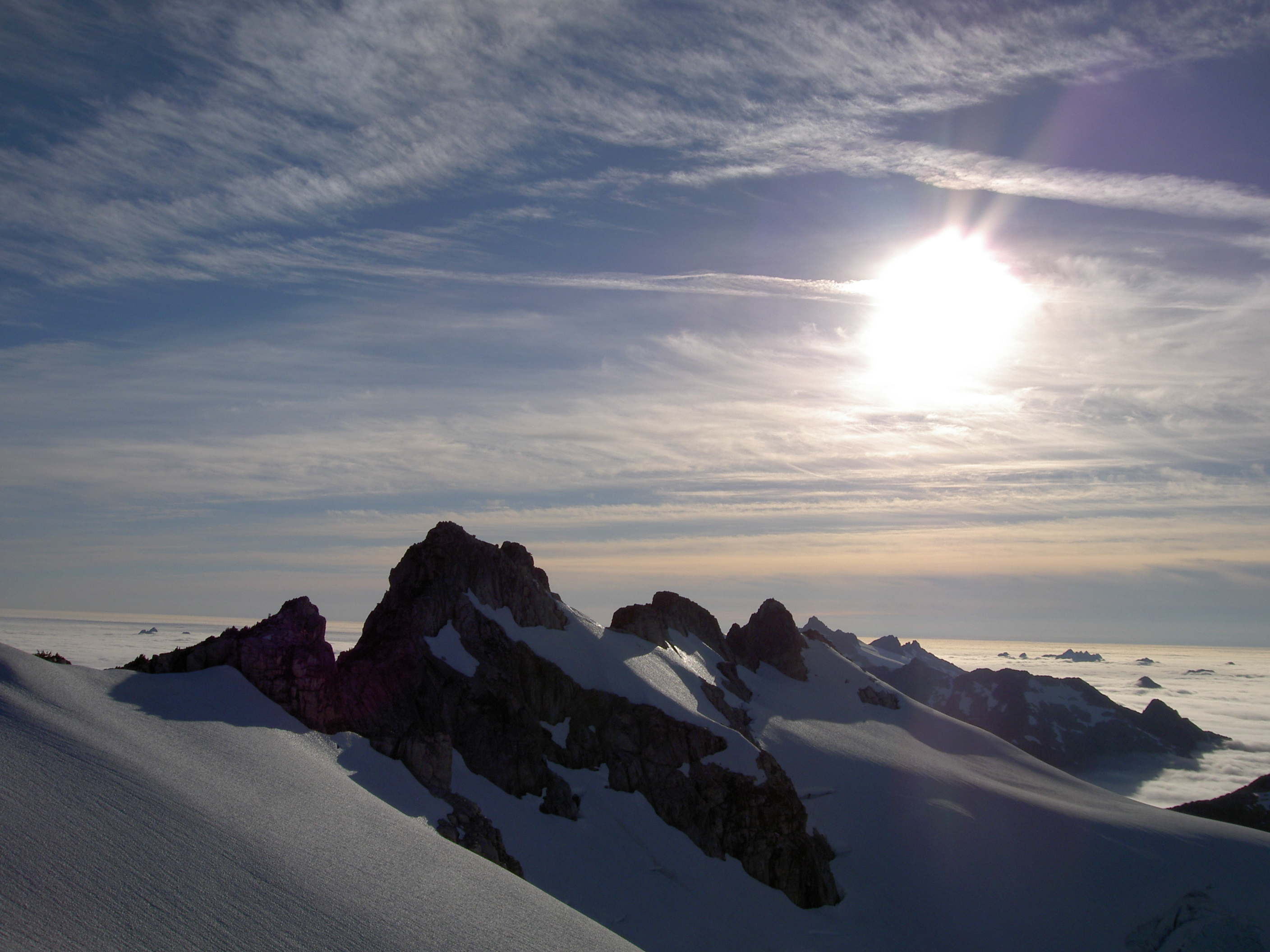 Mount Tom Taylor summit ridge, viewed from NE highpoint.